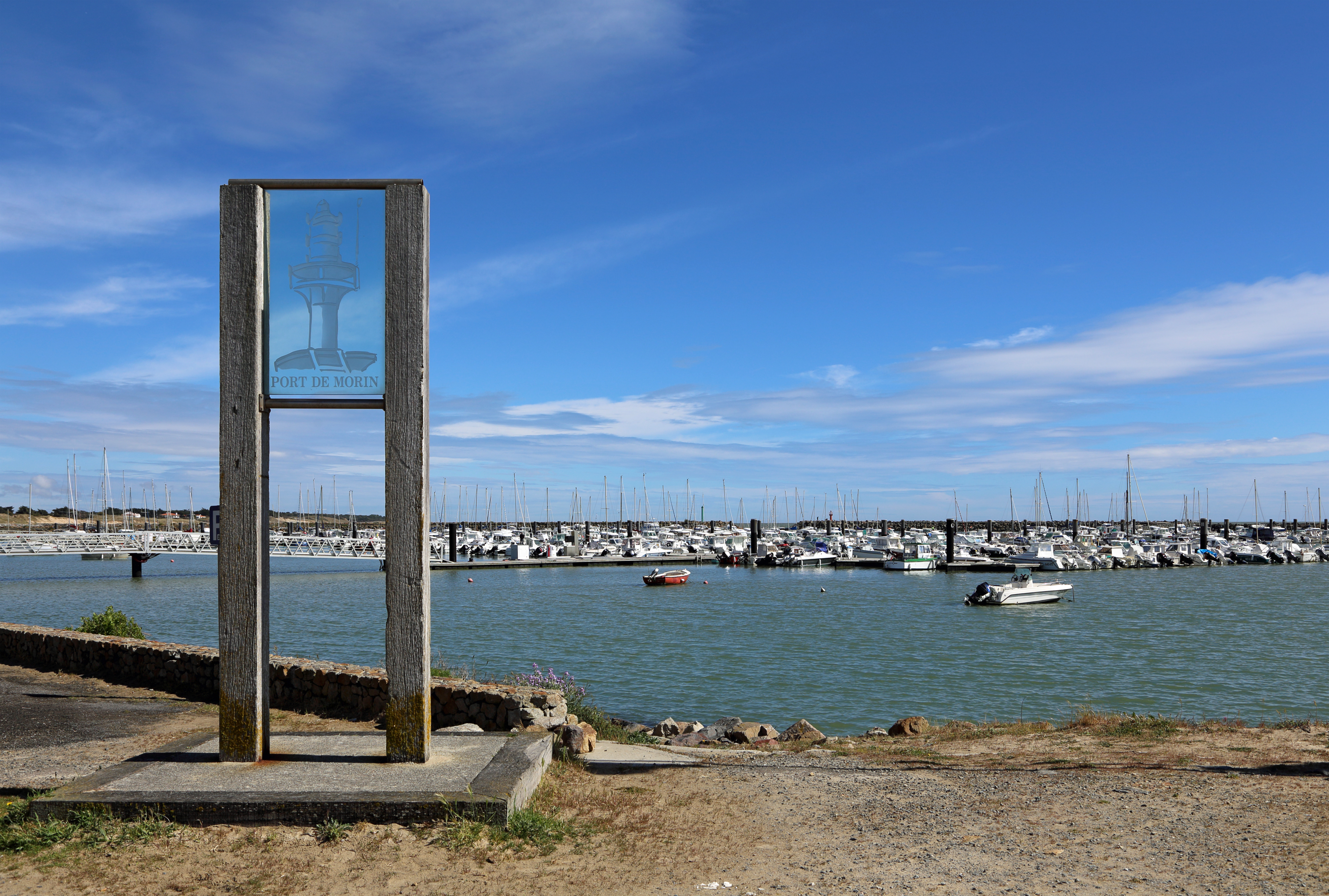 L'Épine (Île de Noirmoutier, Vendée department, France): Port de Morin marina